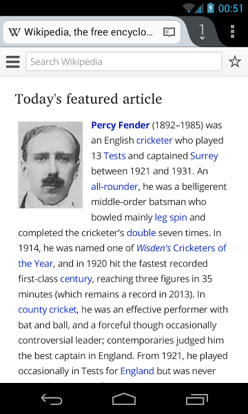 screenshot of firefox mobile